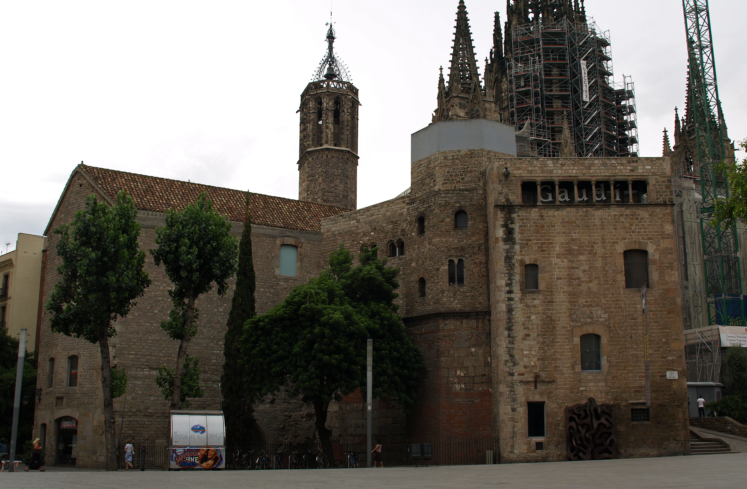 Diocesan Museum of Barcelona (Spain)